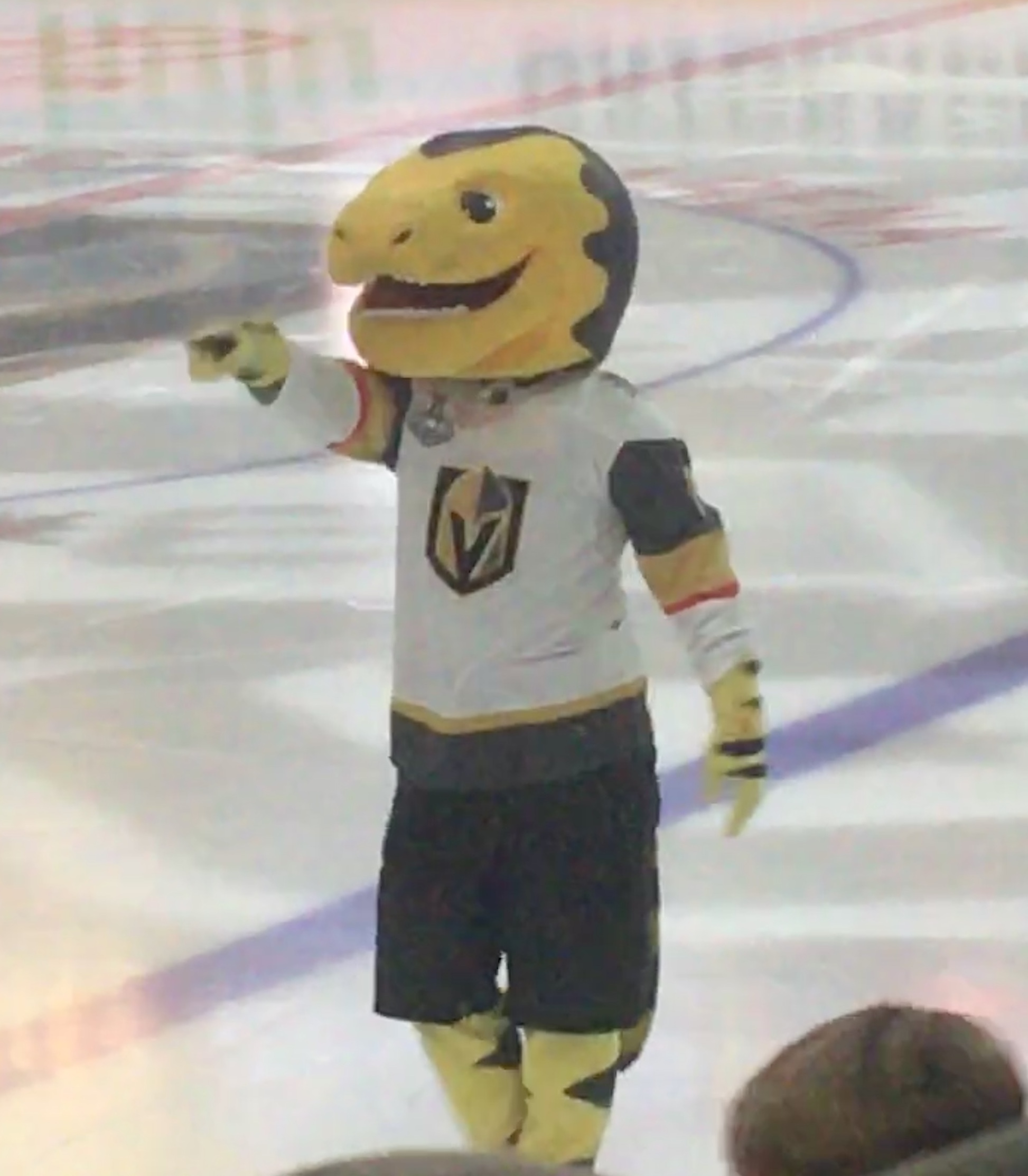 Chance, the mascot of the Vegas Golden Knights hockey team, on the ice at T-Mobile Arena during a watch party for Game 4 of the 2018 Stanley Cup Finals.